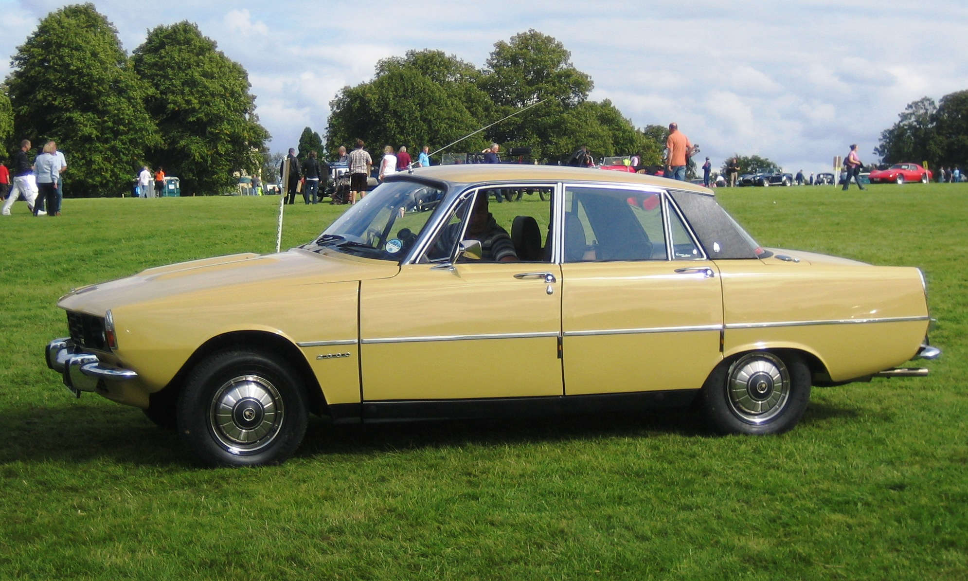 Rover 2000 post midlife facelift at Classic Car Show in profile